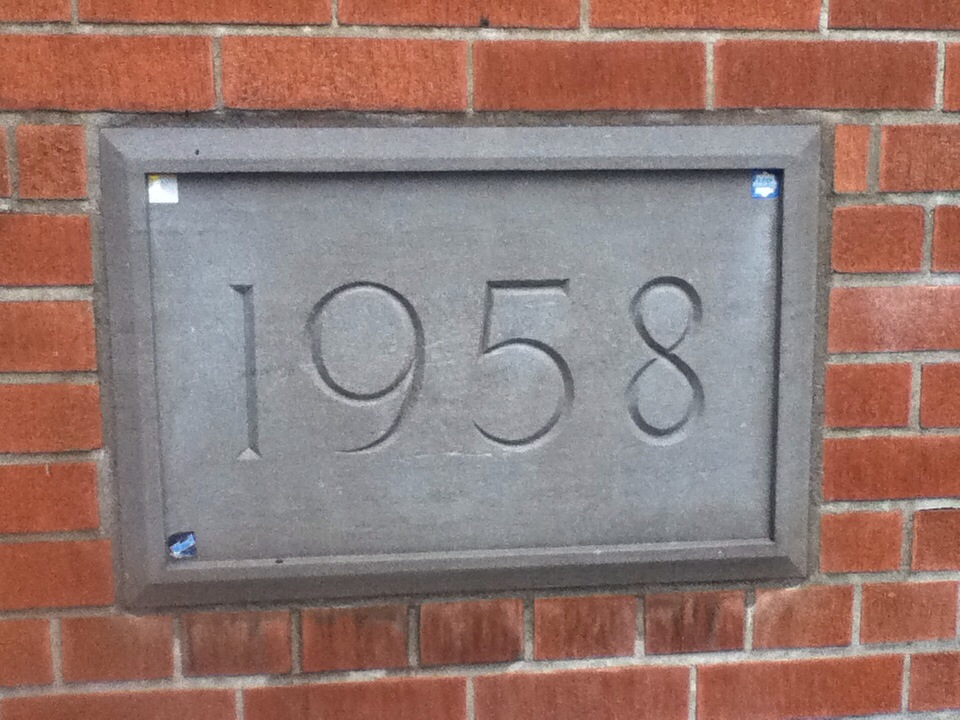 The cornerstone "1958" was placed in 1961.